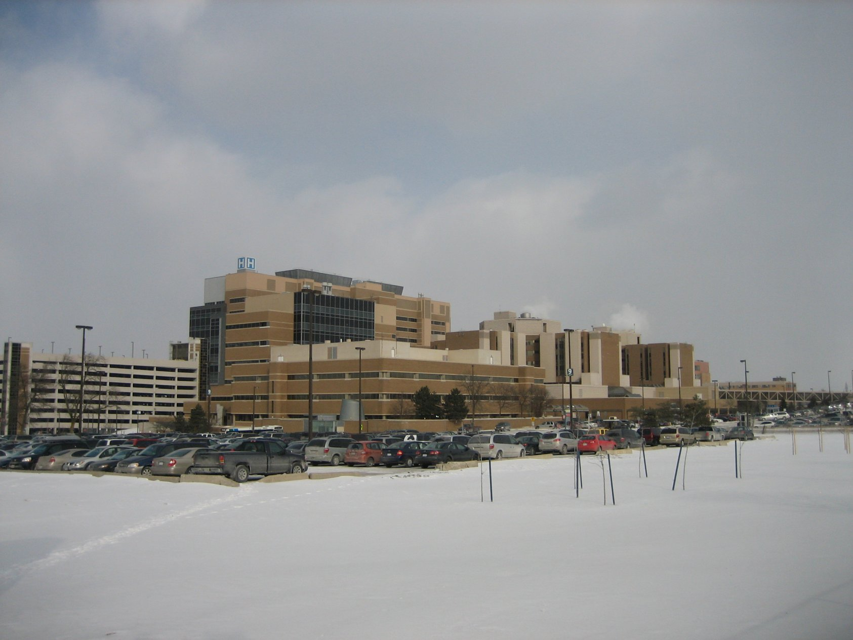 Victoria Hospital London Ontario - without sign